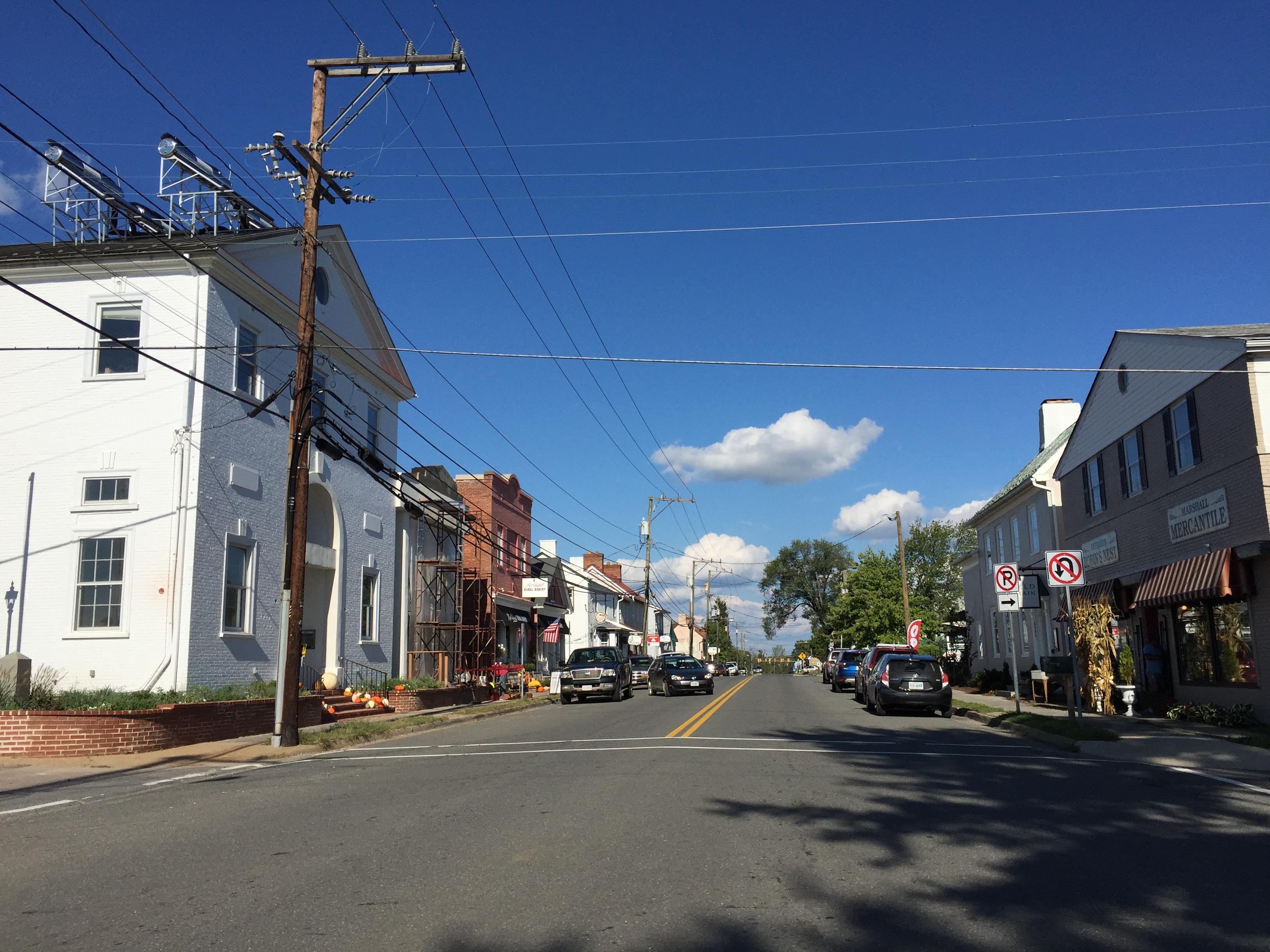 View south along U.S. Route 17 Business and east along Virginia State Route 55 (Main Street) at Frost Street in Marshall, Fauquier County, Virginia